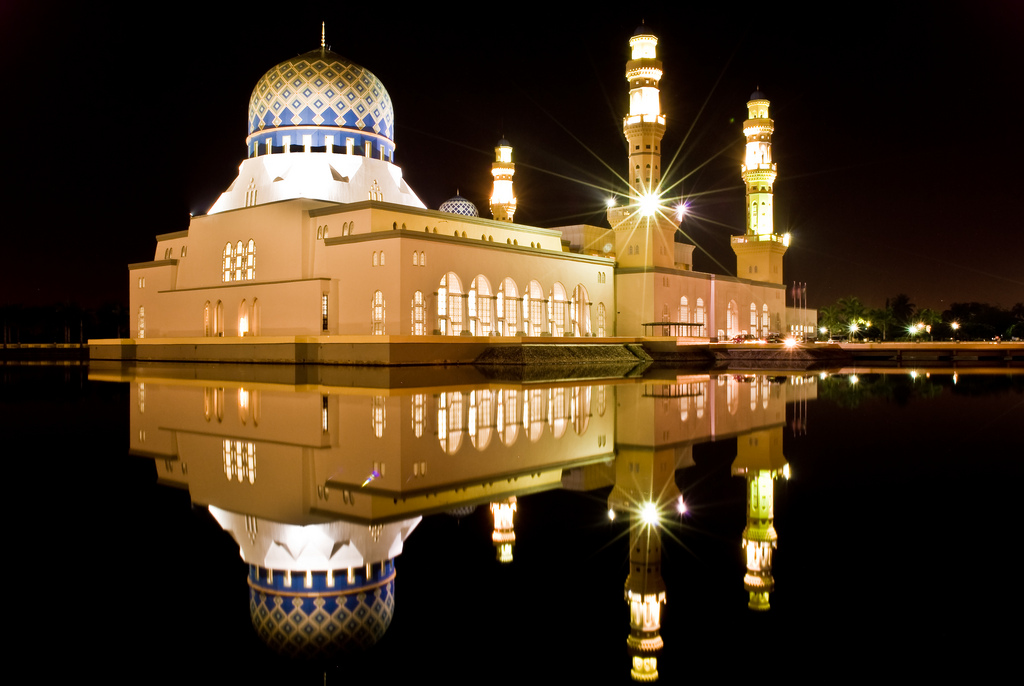 Kota Kinabalu City Mosque at Sabah, Malaysia.